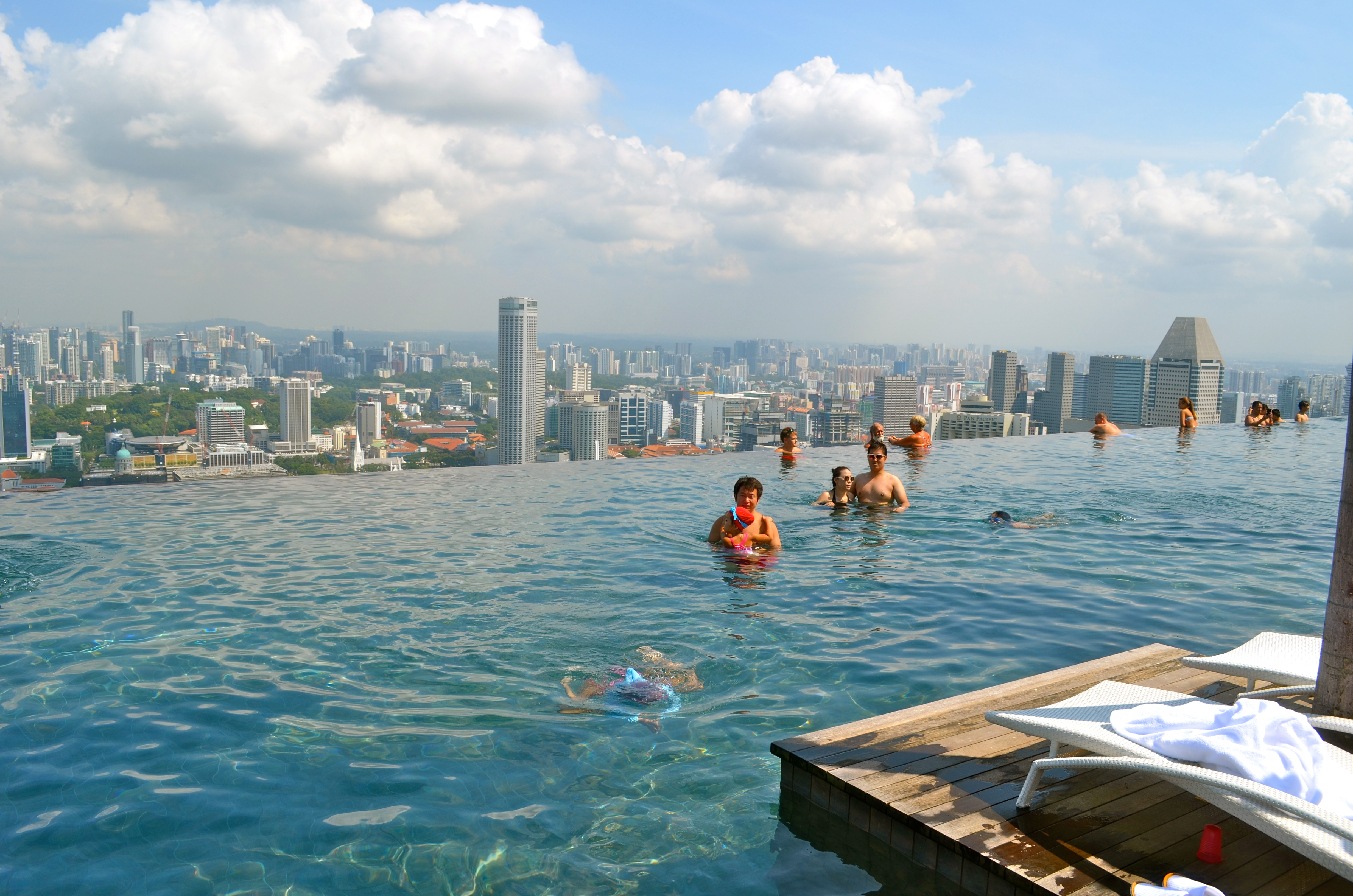 Marina Bay Sands SkyPark Infinity Pool. 57th floor. Singapore. August 2013.